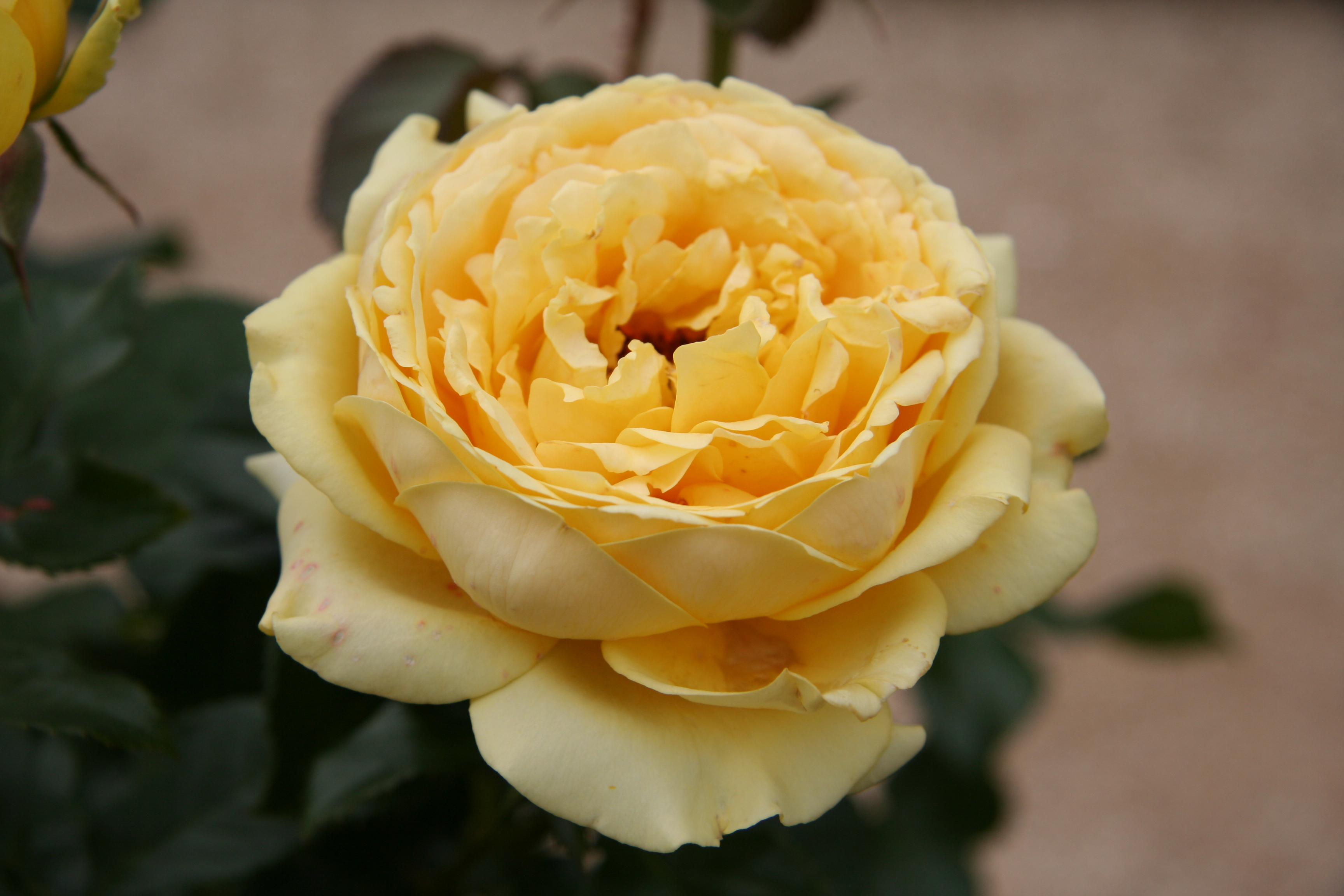 Juliette Gréco rose - Bagatelle Rose Garden (Paris, France).